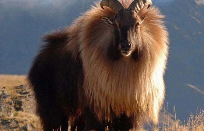 Image from the official website of Department of National Parks and Wildlife Conservation, Nepal.